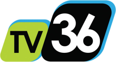 Logo of KICU